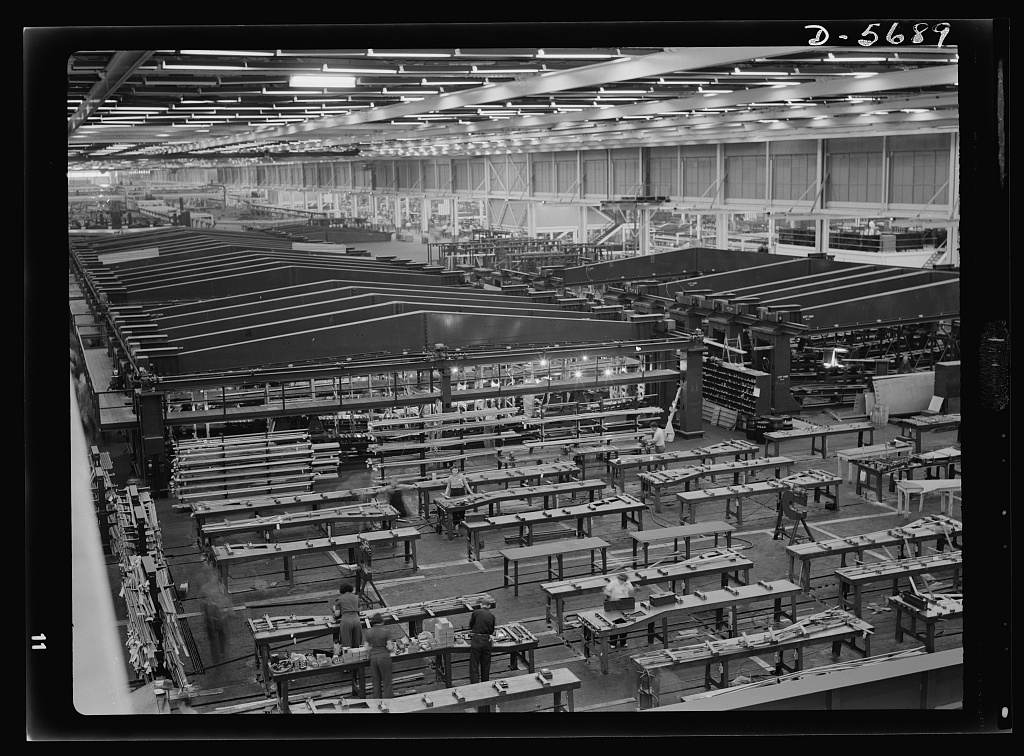 A small part of the world's largest one-story war production plant, the giant bomber factory at Willow Run, Michigan. Fixtures in background hold bomber wings during assembly. Ford plant, Willow Run